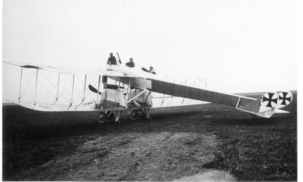 PictionID:43640748 - Catalog:16_004718 - Title:Gotha-Ursinus GUH G.I Nowarra photo - Filename:16_004718.TIF - - - - - - - Image from the Ray Wagner Collection. Ray Wagner was Archivist at the San Diego Air and Space Museum for several years and is an author of several books on aviation --- ---Please Tag these images so that the information can be permanently stored with the digital file.---Repository: San Diego Air and Space Museum